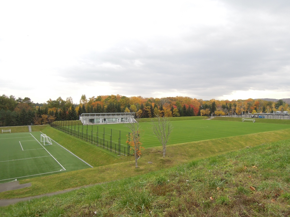 Sapporo Dome outdoor football grounds